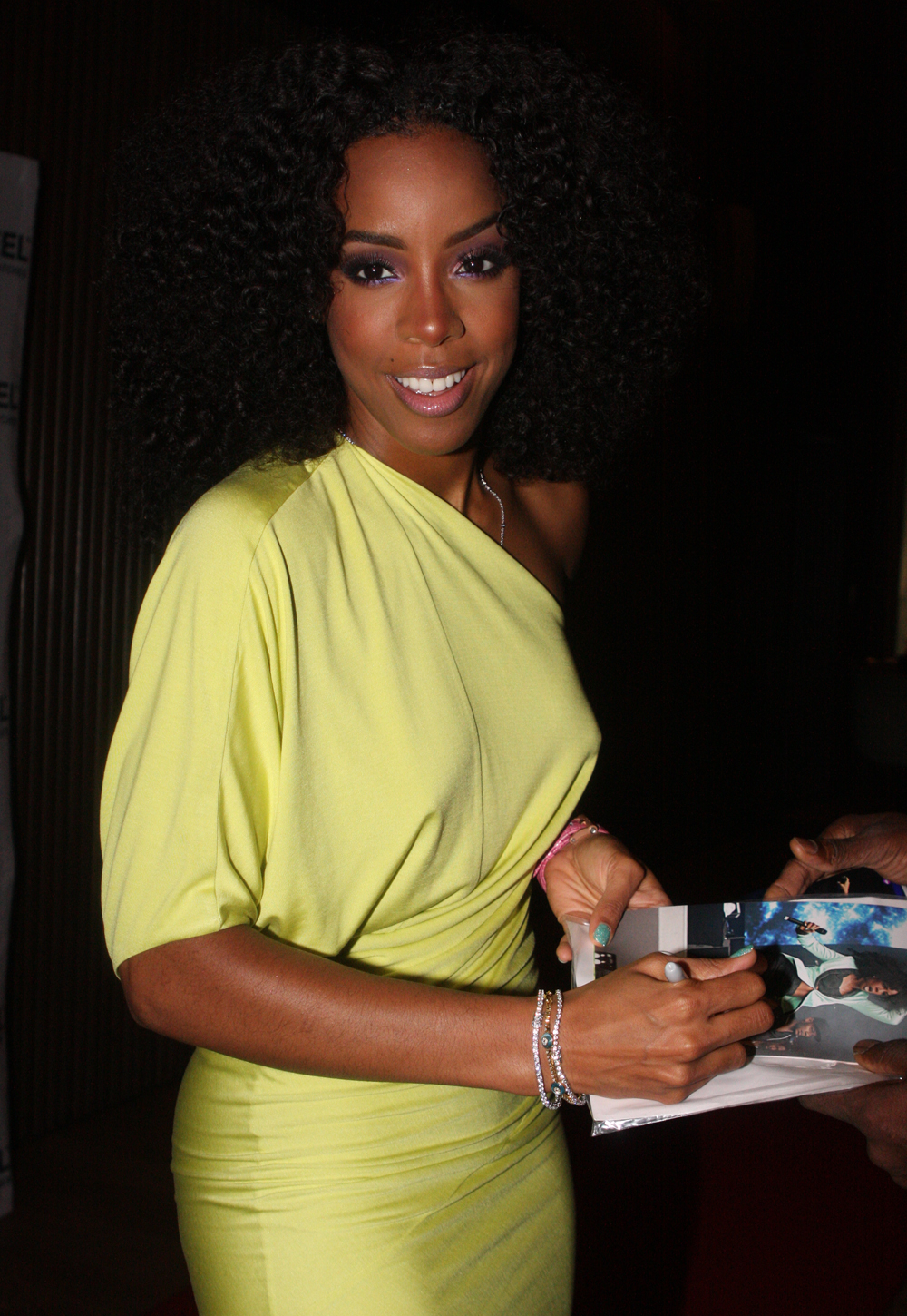 Kelly Rowland Hosts TW Steel Events At Ivy Penthouse; Sydney, Australia 2012.